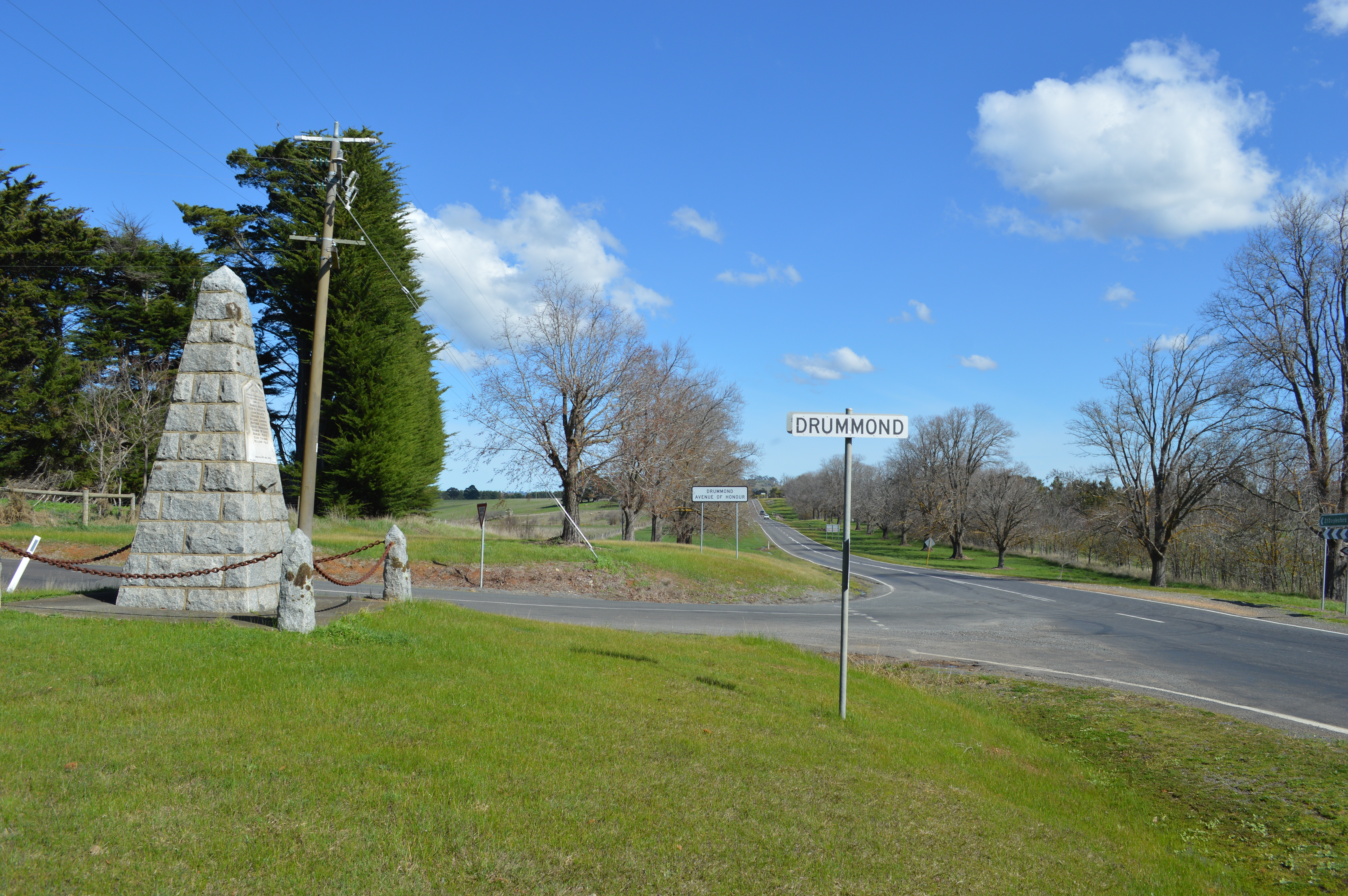 Town entry sign and war memorial at Drummond, Victoria